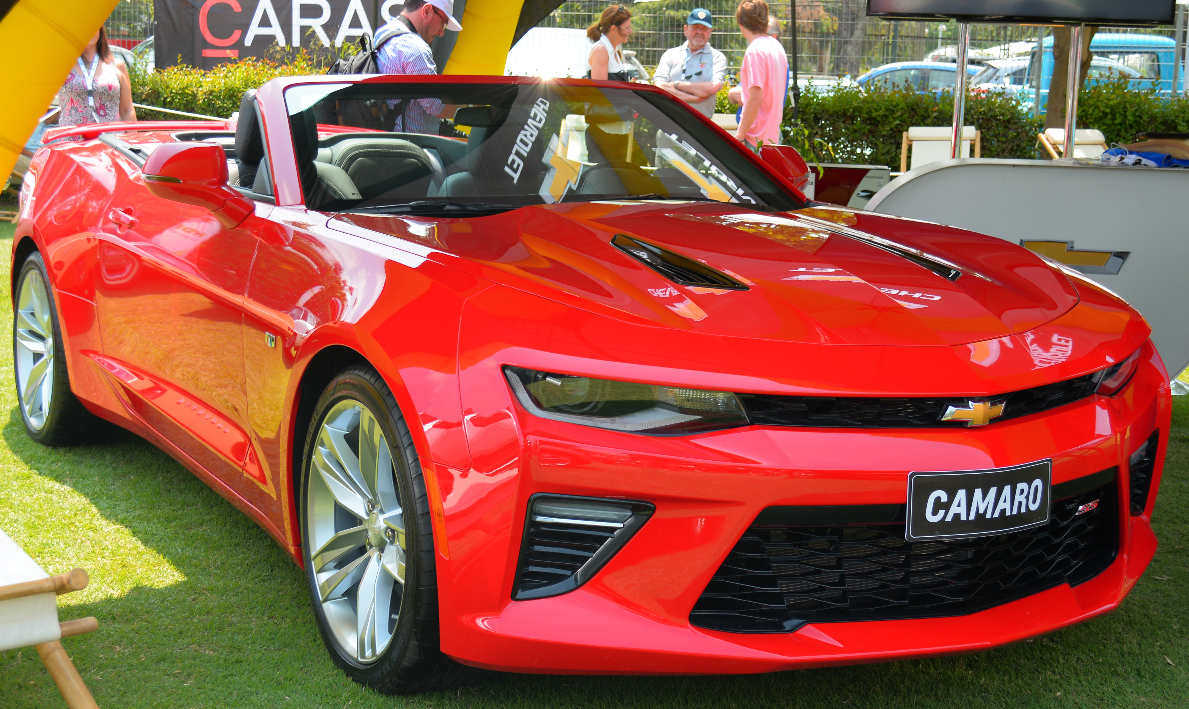 Chevrolet Camaro SS Convertible 2018